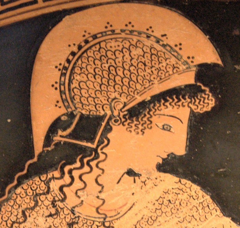 Head of Athena. Interior's detail of an Attic red-figure cup, 500–490 BC. From Cerveteri (ancient Caere), Latium.